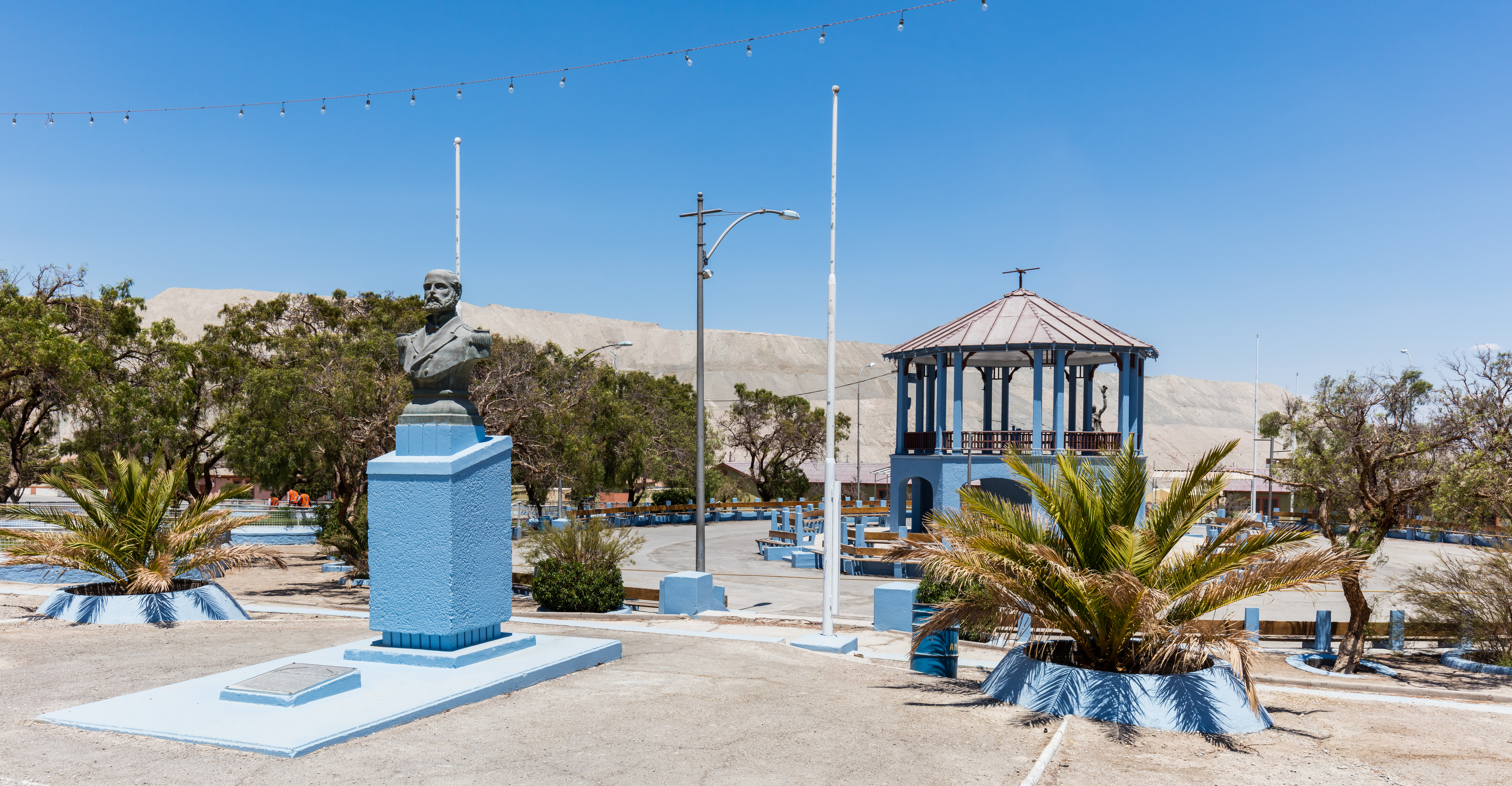 Chuquicamata town, Calama, Chile